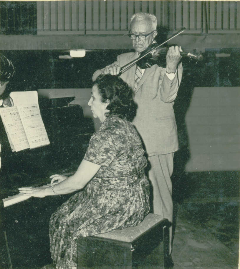 The Venezuelan musicians Don José Ángel Rodríguez López and Doña Rita Tamayo de Rodríguez